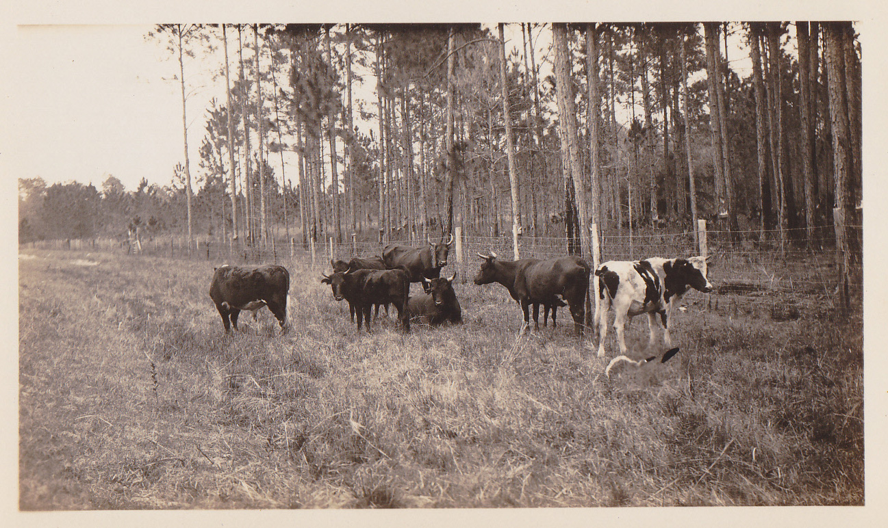 photograph taken by Raymond Becker, University of Florida